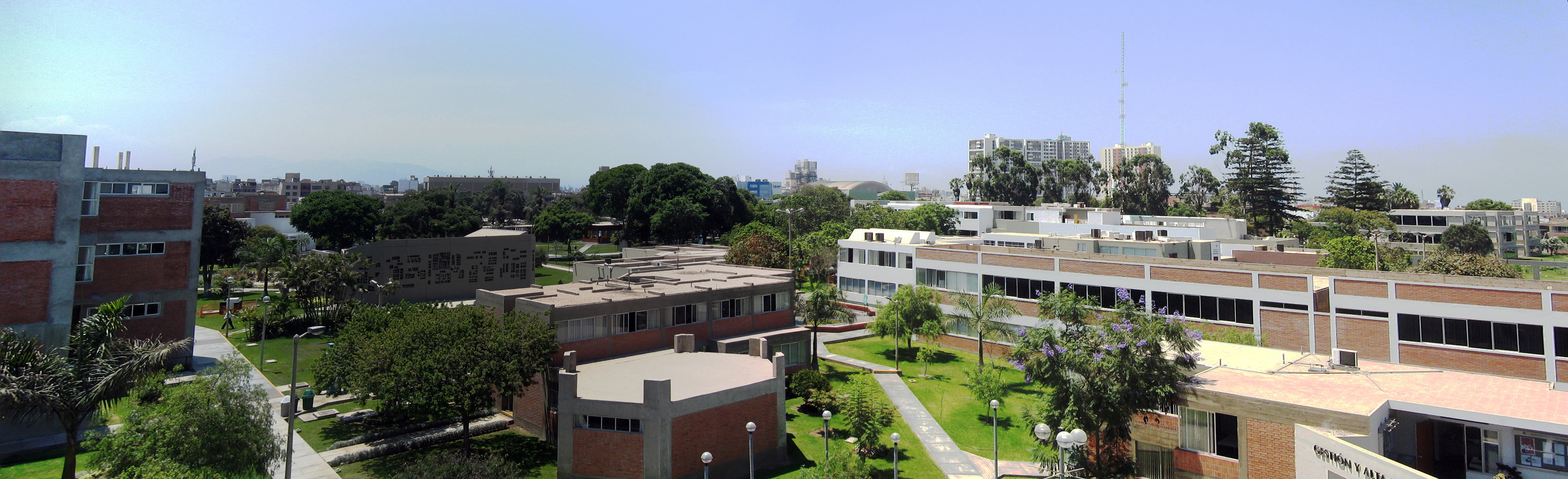 This is a view from the 4th floor of Building Zeta (Z) of the Pontificia Universidad Católica del Perú, looking approximately southeast onto the Department of Theology and other campus areas. The main library is to the left side of the image and an administrative building on the right. The view covers approximately one quadrant, from east to south. This image was created with Hugin